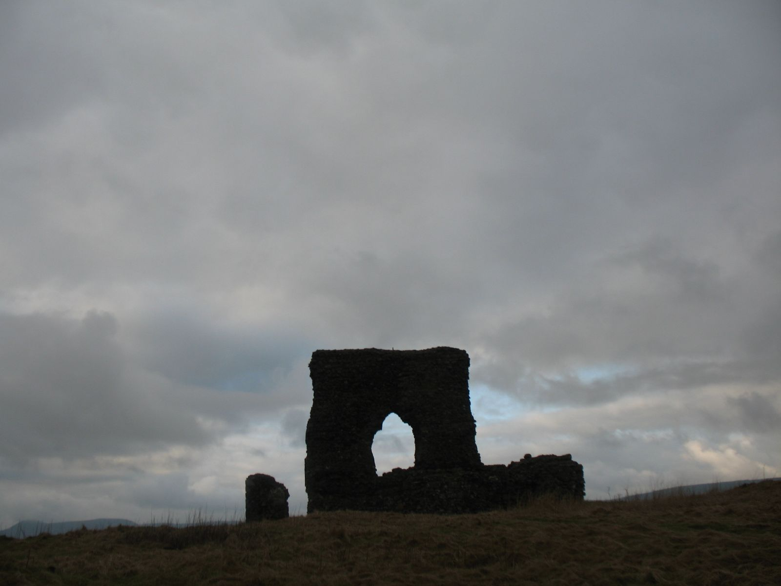 Dunnideer fort, Aberdeenshire See where this picture was taken. [?]